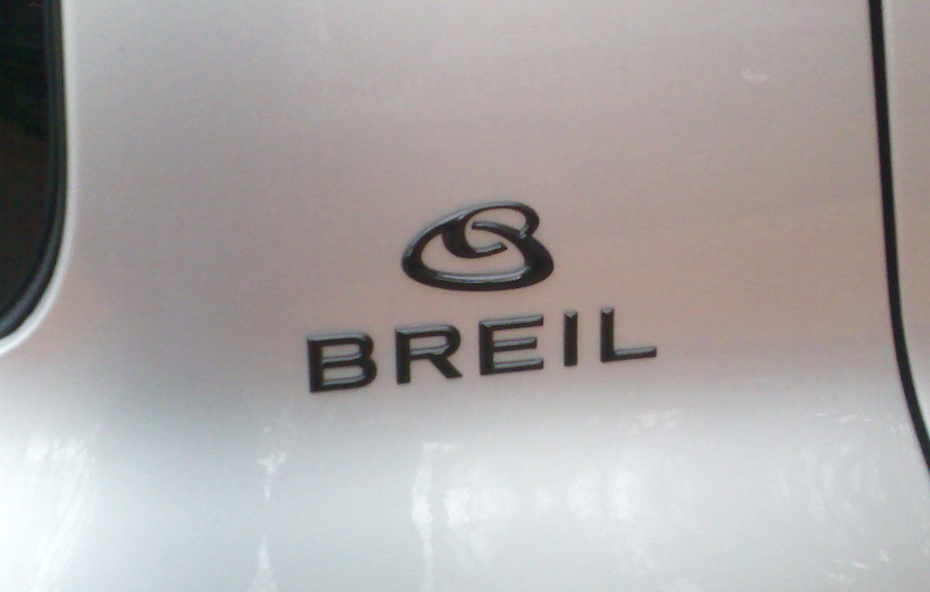 Breil badge